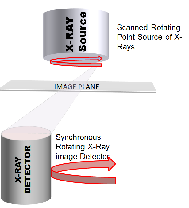 An illustration of the imaging method used for reconstructing an image with laminography.